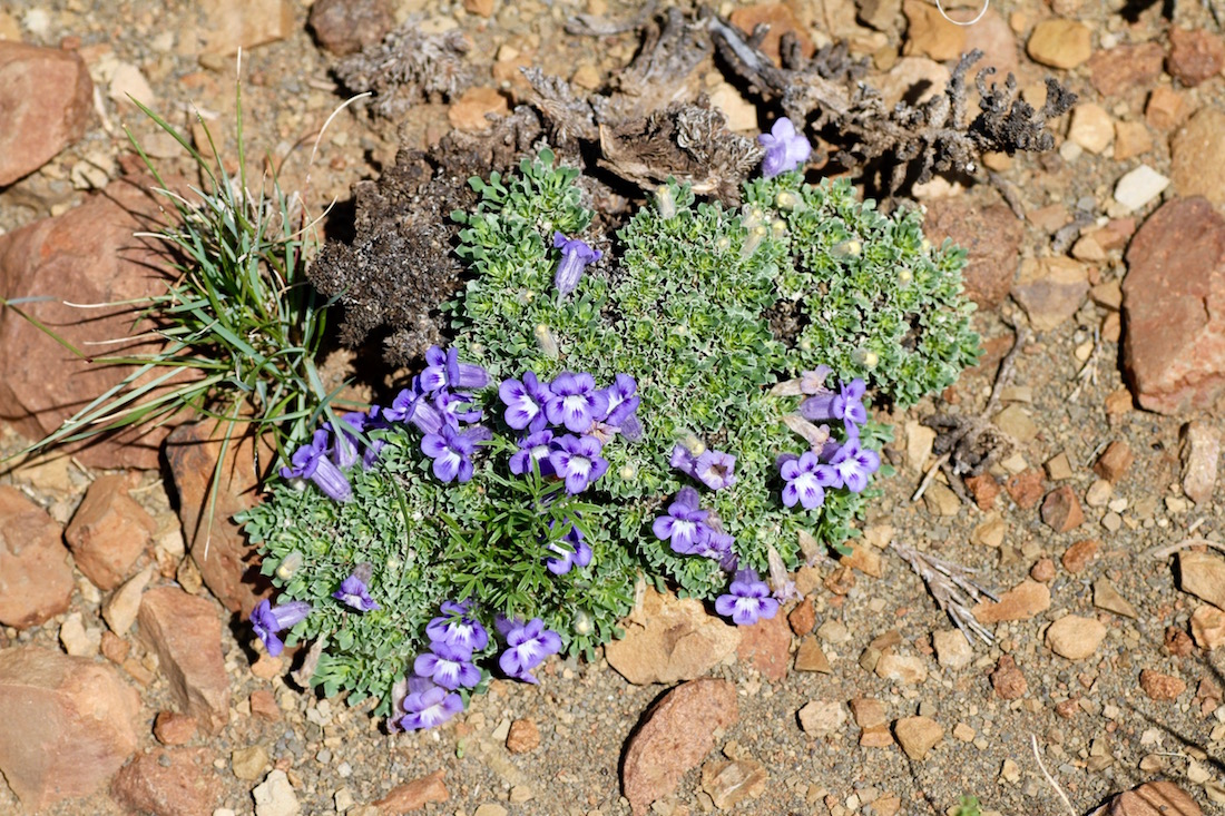 Aptosimum procumbens in Karoo National Park